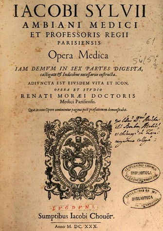 Ambiani medici et professoris regii parisiensis Opera medica ... 1630 Latin work